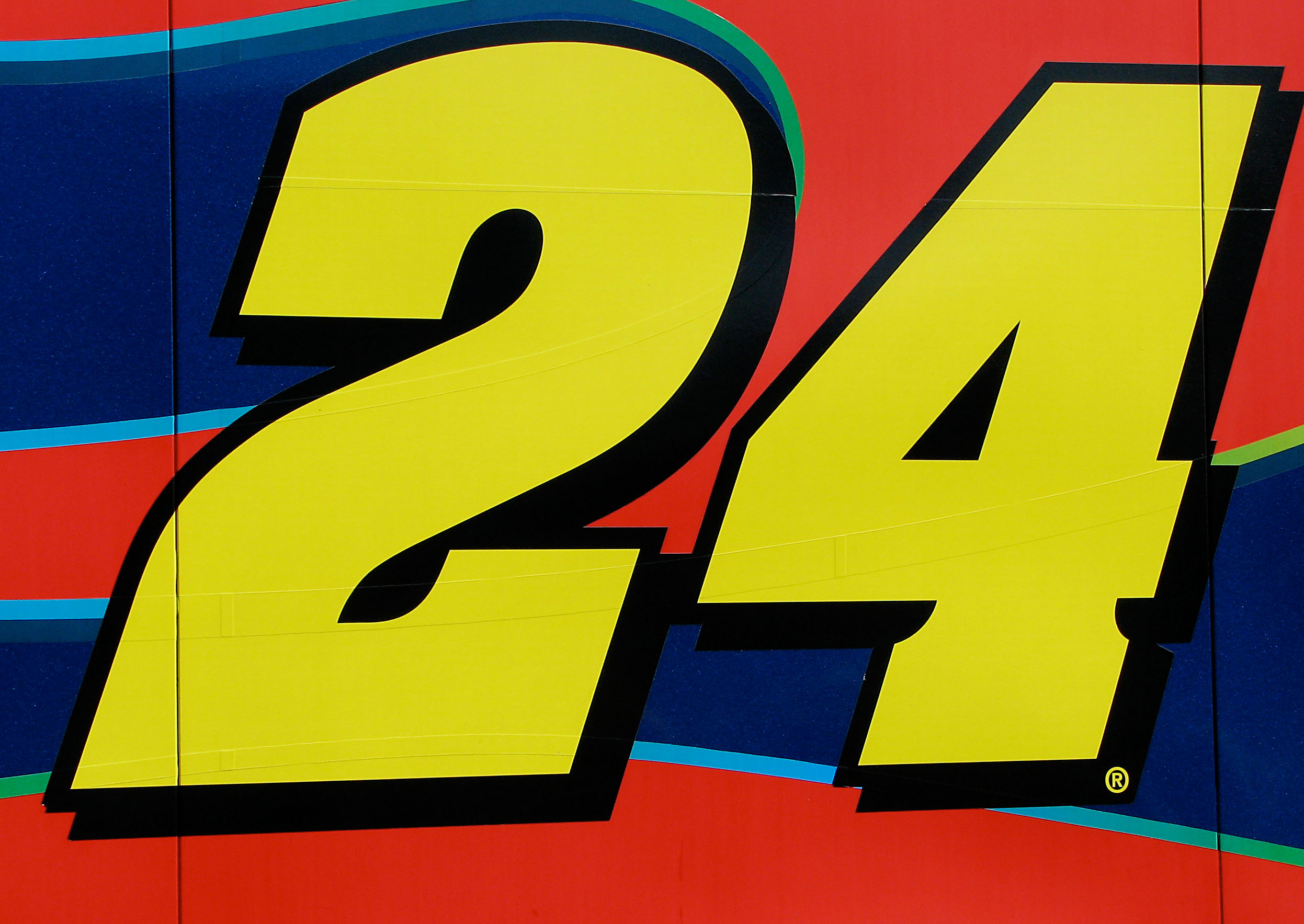 No, not Jack Bauer. This is for my nephew who is a huge Jeff Gordon fan.